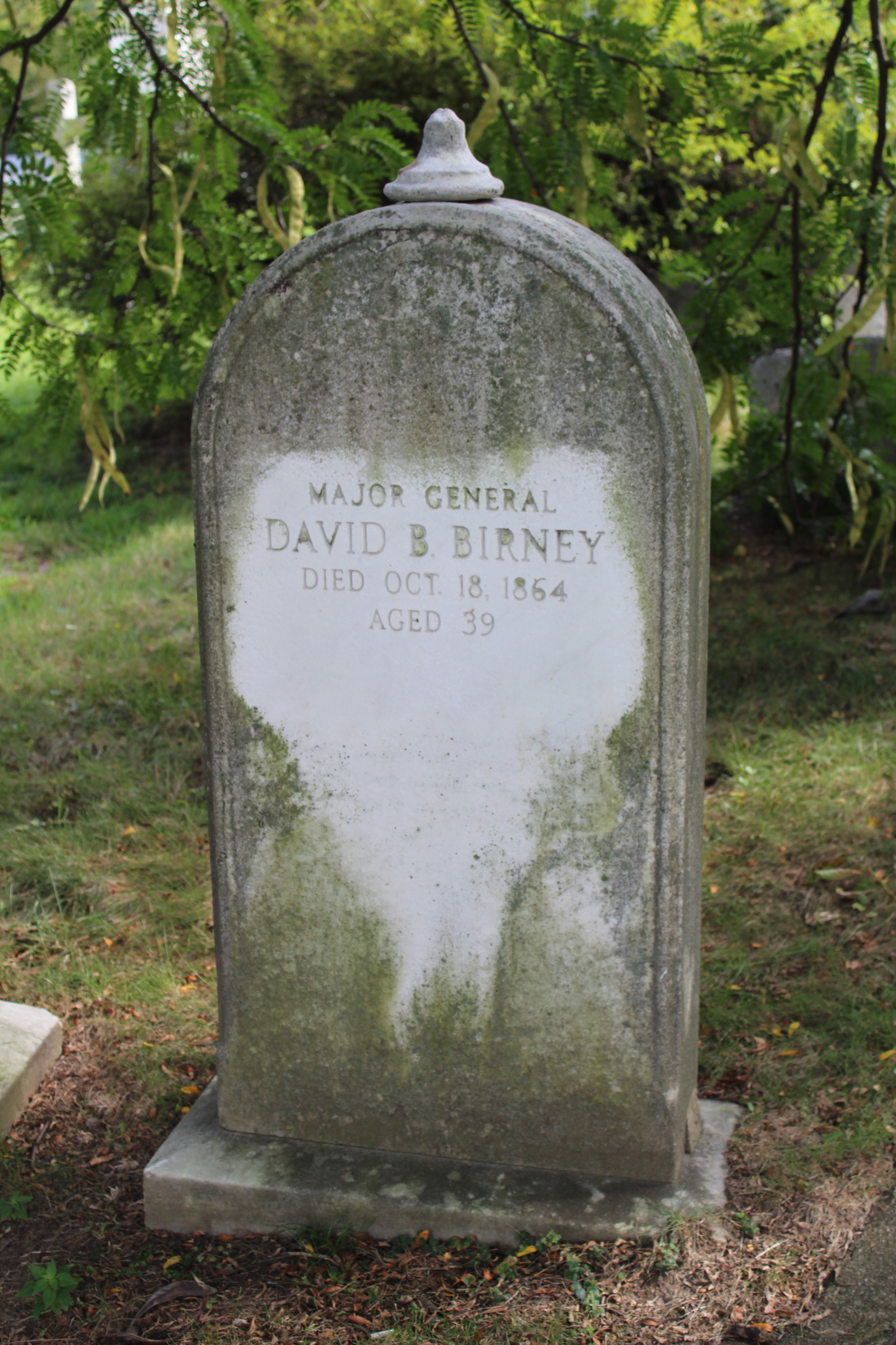 David B. Birney grave at the Woodlands Cemetery in Philadelphia, Pennsylvania. Photo taken in August 2019.